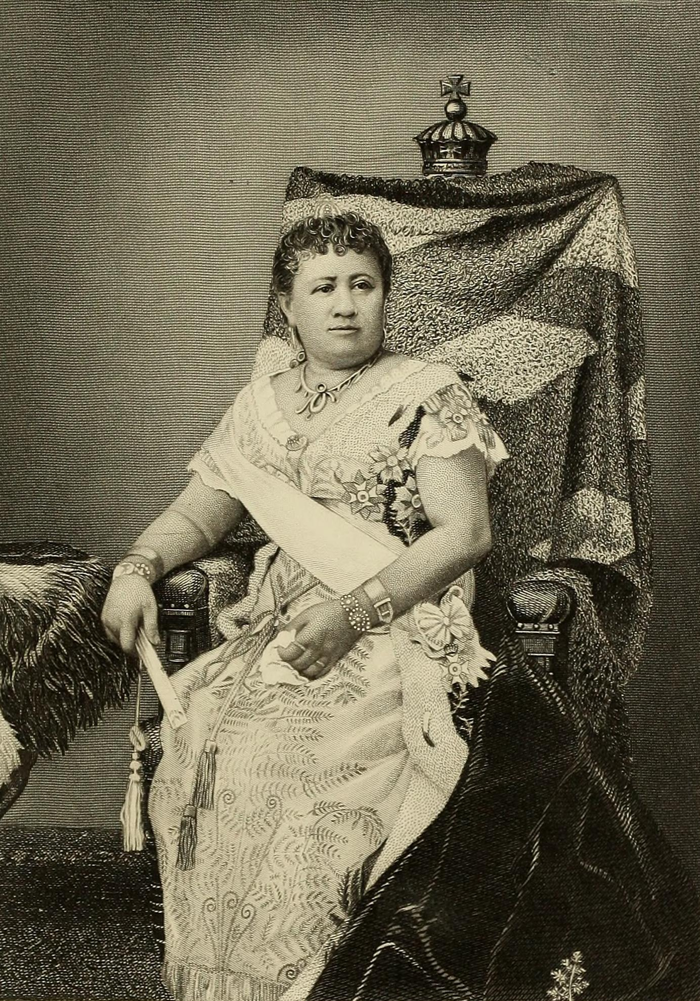 Queen Kapiolani sitting on chair draped with feather cloak.